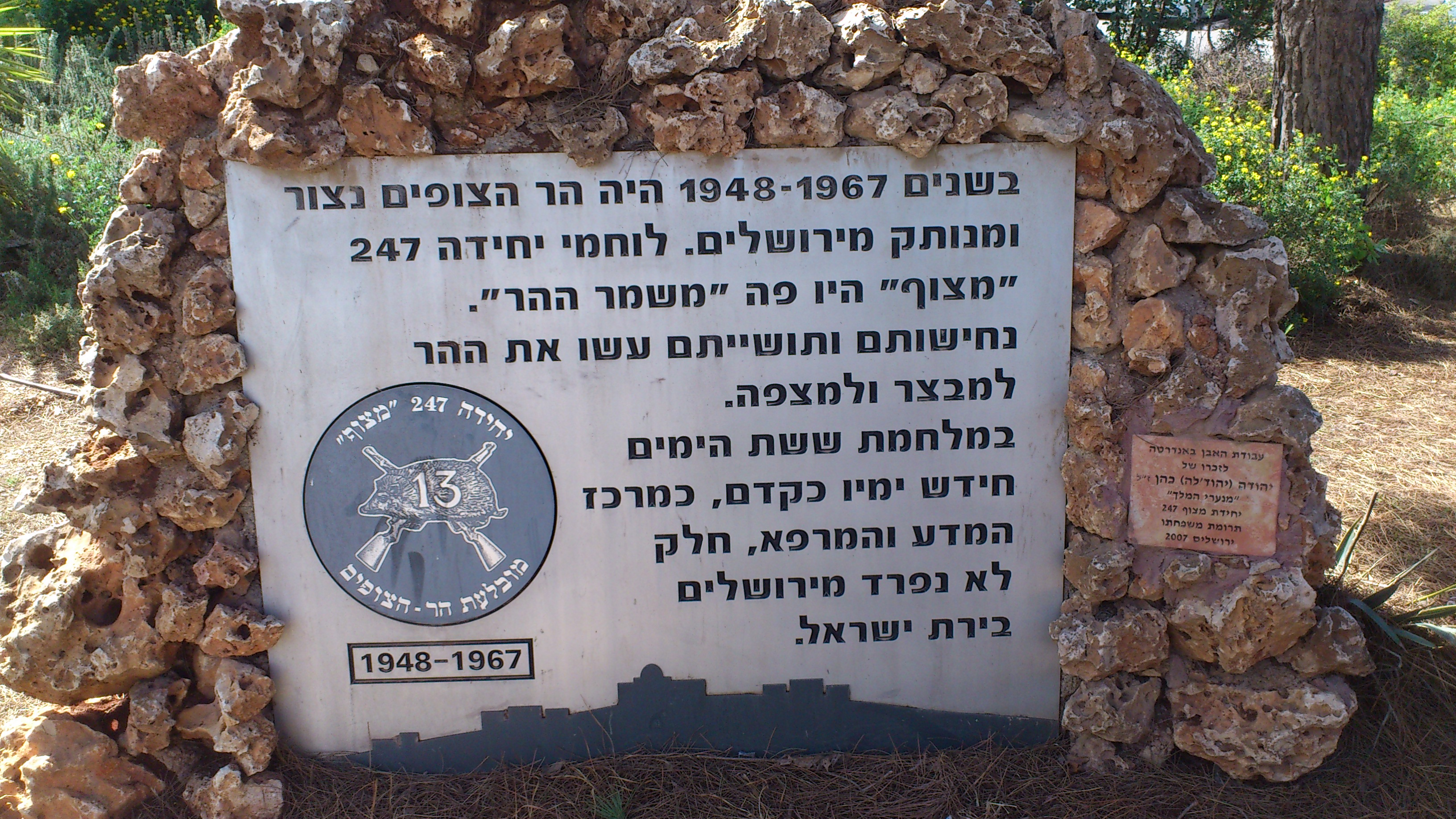 Avigdor HaMeiri Square